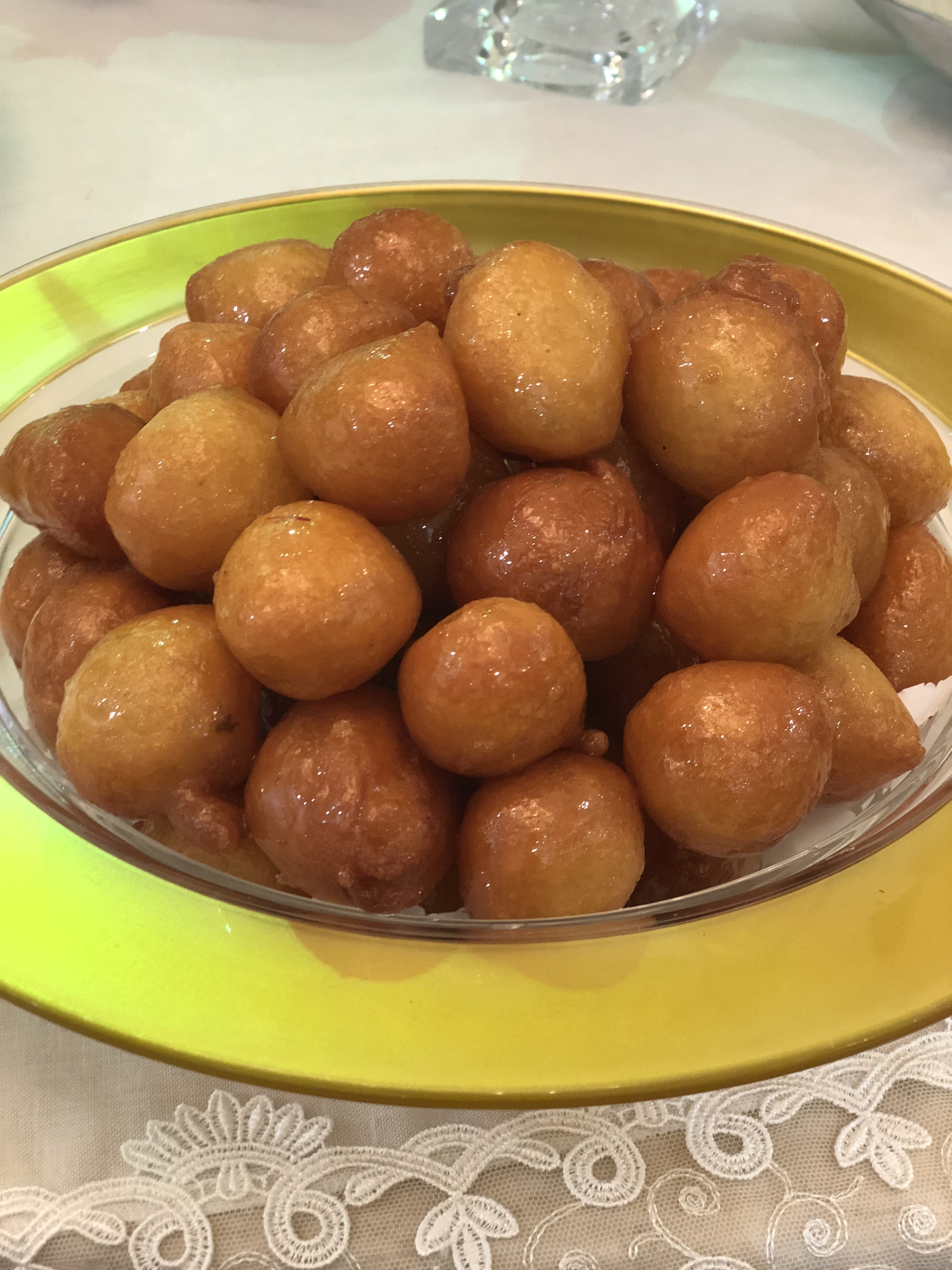 sweet dumpling cakes